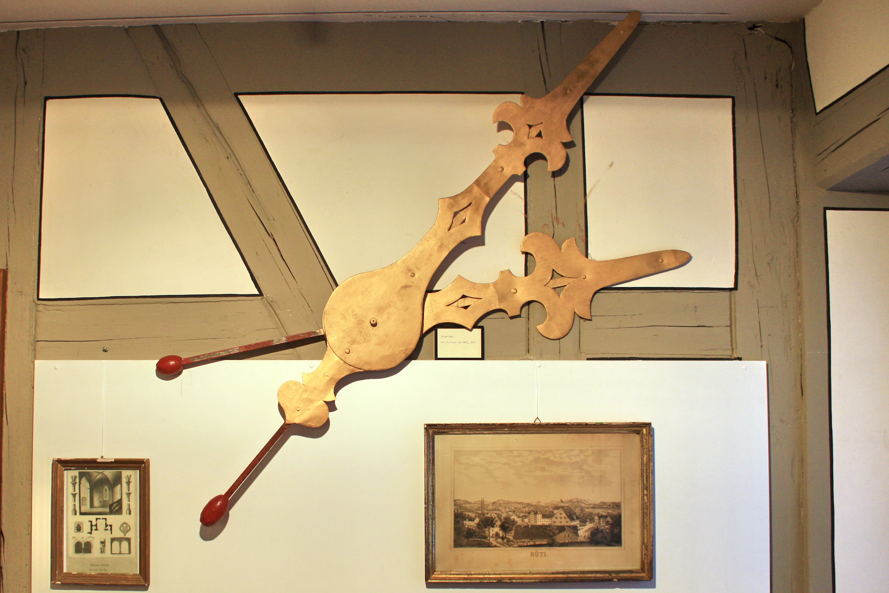 Rüti (ZH) : Relicts of the former Premonstratensian Abbey, Ortsmuseum (museum of local history) in the Amthaus Rüti (Bailiff's house).